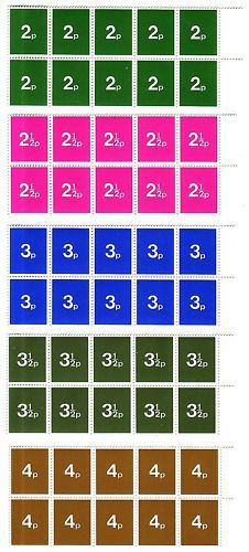 British decimalisation training stamps in blocks.